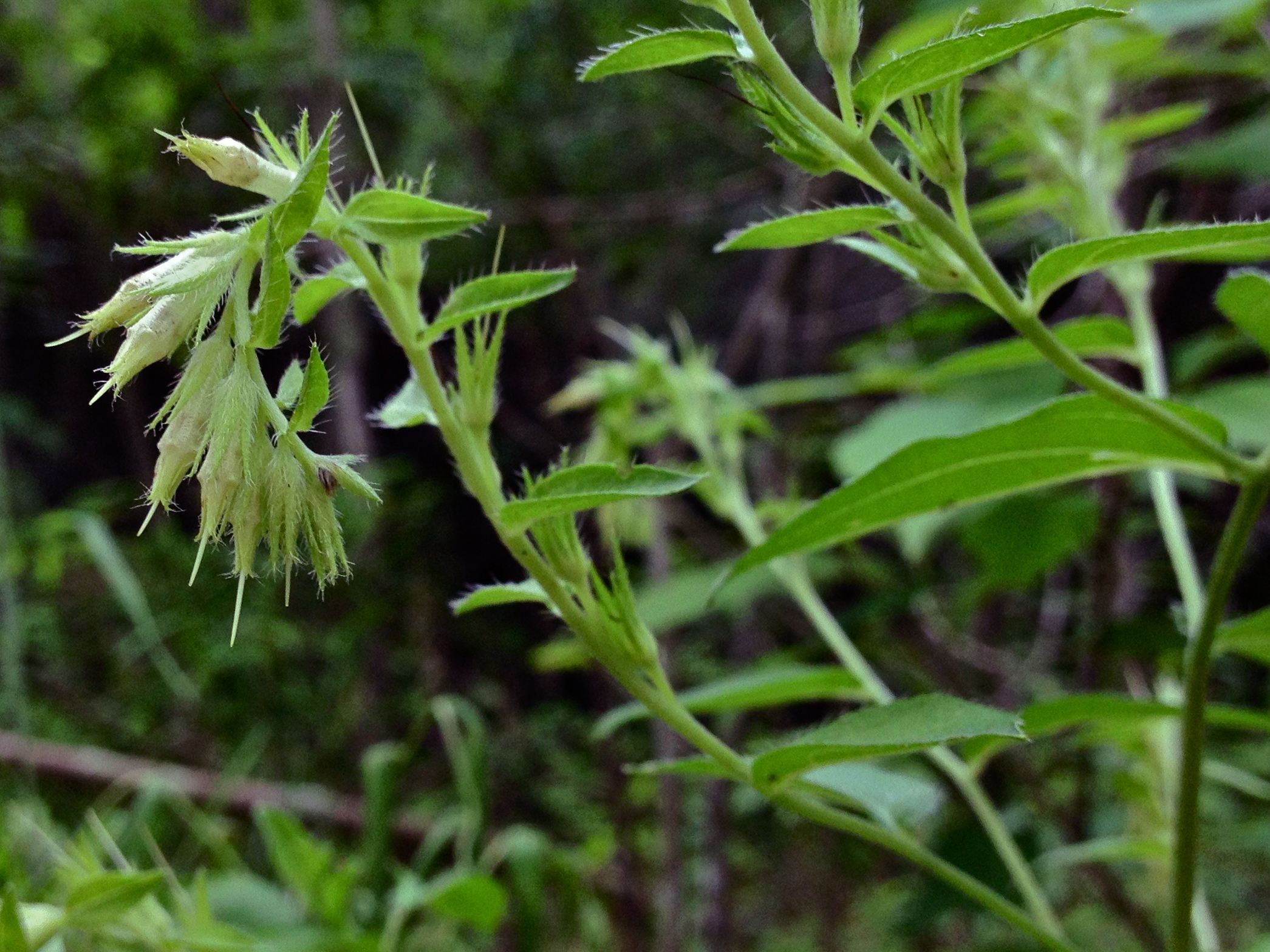 Photo of Onosmodium virginianum in flower. This is a native plant growing wild in Great Falls Park, in Fairfax county Virginia, USA. This species is a member of the Boraginaceae family. Thisspecies has recently been renamed Lithospermum virginianum.